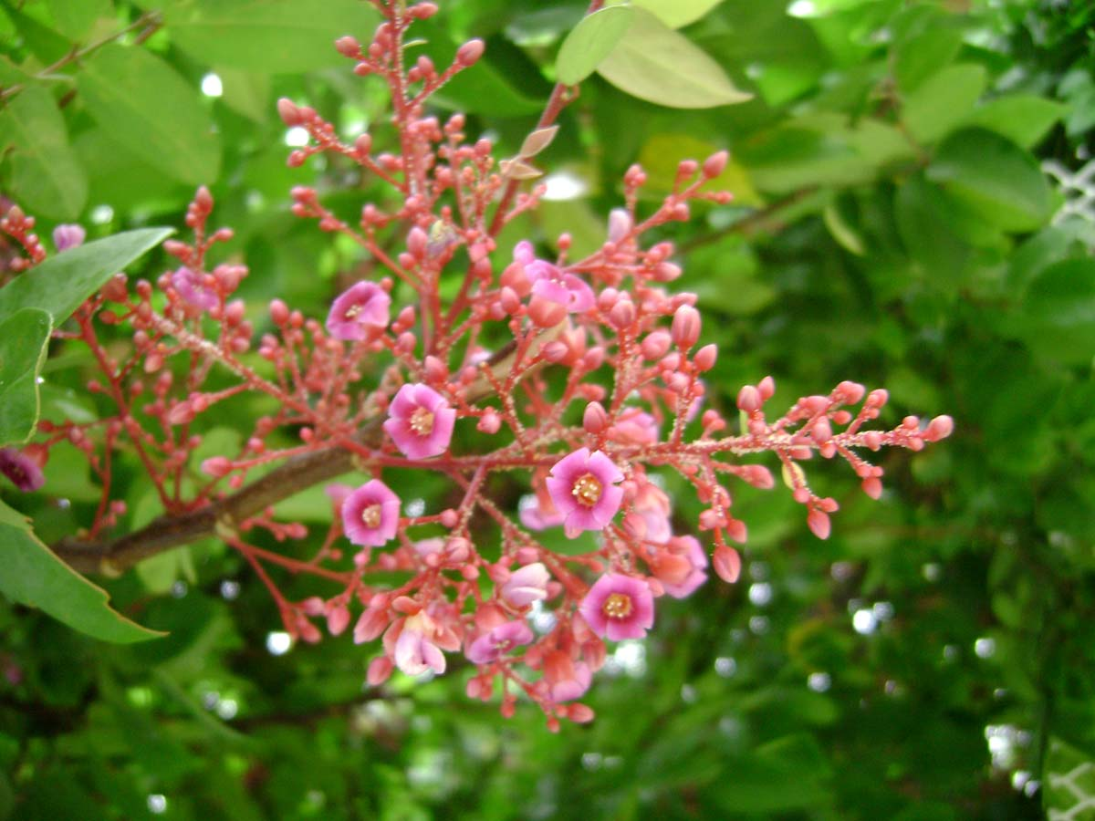 Averrhoa carambola flowers; in Tonga